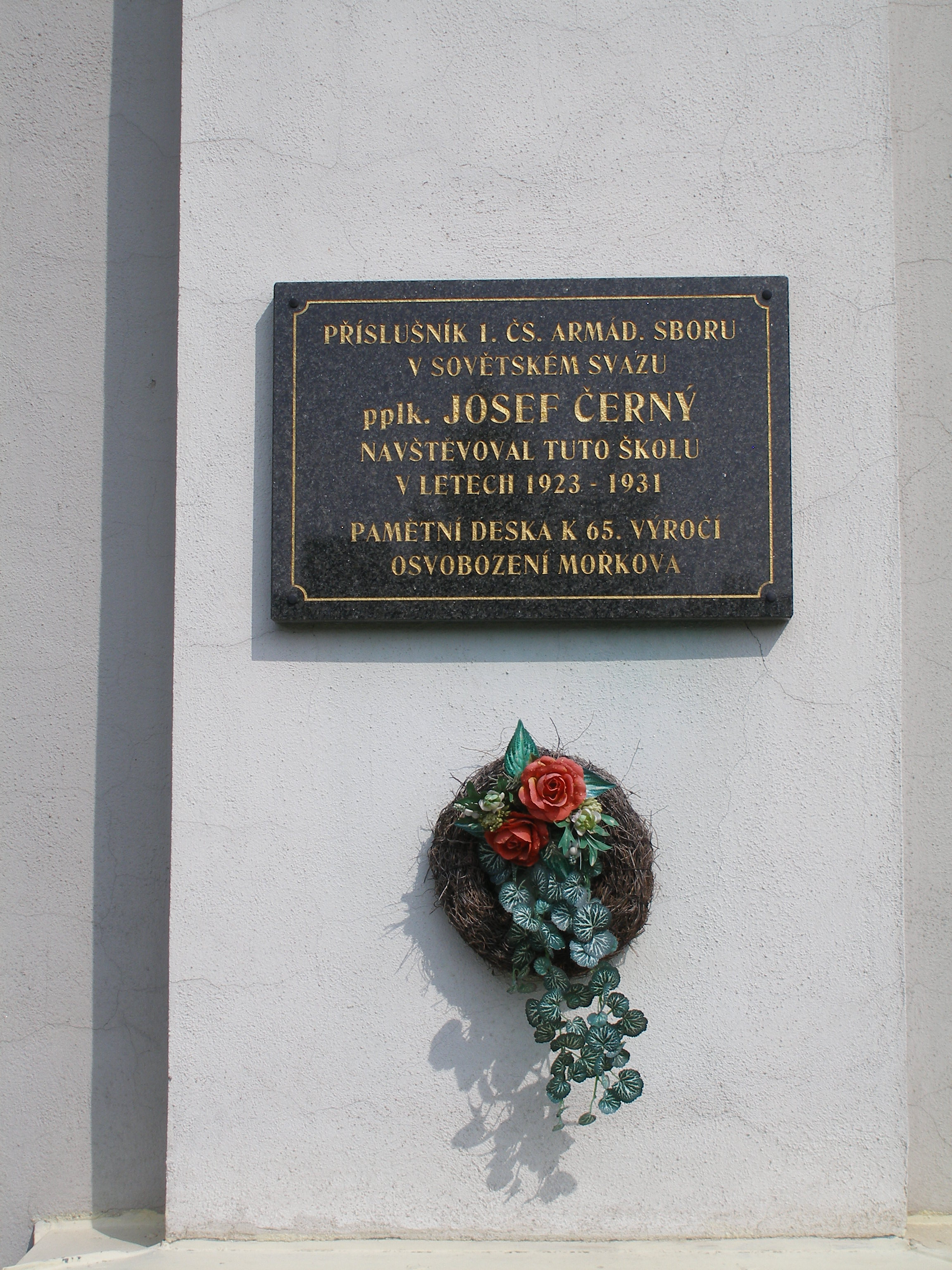 Josef Černý's memorial at primary school in Mořkov.